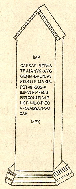 Milliarium of Aiton, a Roman milestone discovered in Aiton commune, near Cluj-Napoca, Romania, reproduction of a drawing by M. P. Szatmary done in 1758. The milestone, is dating from 108 AD and shows the construction of the road from Potaissa to Napoca, by demand of the Emperor Trajan. It indicates the distance of ten thousand feet (P.M.X.) to Potaissa. It is the first epigraphical attestation of the settlements of Potaissa and Napoca in Roman Dacia. The complete inscription is: "Imp(erator)/ Caesar Nerva/ Traianus Aug(ustus)/ Germ(anicus) Dacicus/ pontif(ex) maxim(us)/ (sic) pot(estate) XII co(n)s(ul) V/ imp(erator) VI p(ater) p(atriae) fecit/ per coh(ortem) I Fl(aviam) Vlp(iam)/ Hisp(anam) mil(liariam) c(ivium) R(omanorum) eq(uitatam)/ a Potaissa Napo/cam / m(ilia) p(assuum) X". The inscription was recorded in Corpus Inscriptionum Latinarum, vol.III, the 1627, Berlin, 1863.